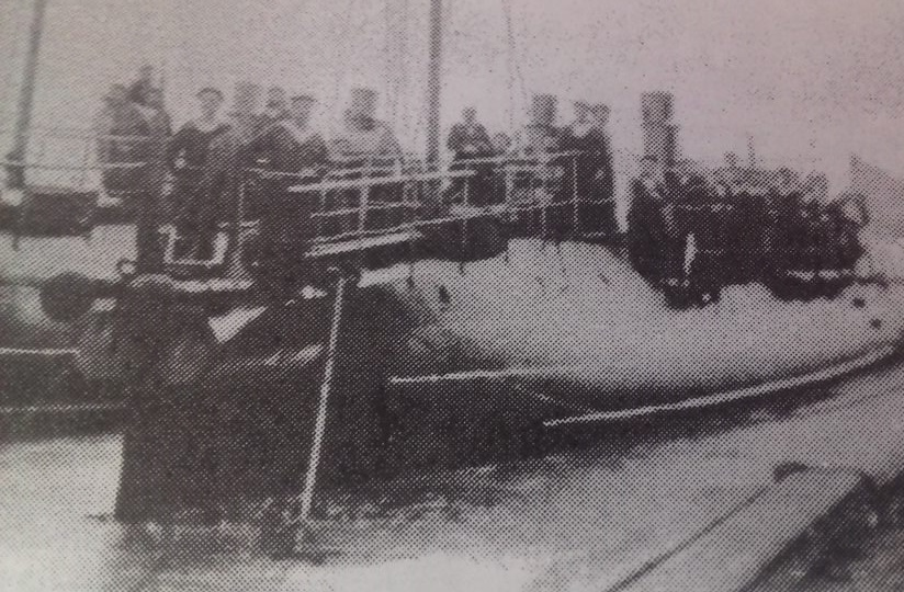 The warship depicted in the picture is either the Romanian torpedo boat Smeul or one of her two sister ships